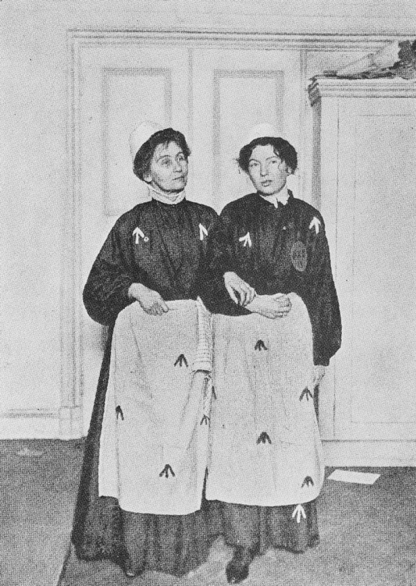 Emmeline Pankhurst and her daughter Christabel in prison dress